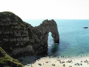 Durdle Door. Photo taken in 1999 by Andy Avery.